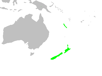 natural world distribution of genus Libocedrus, according to the book "Plant" (2005) ISBN 075660589X